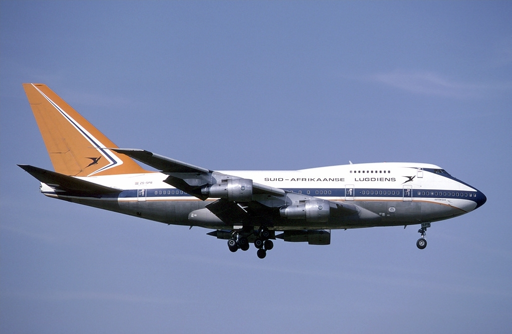 South African Airways Boeing 747SP at Zurich